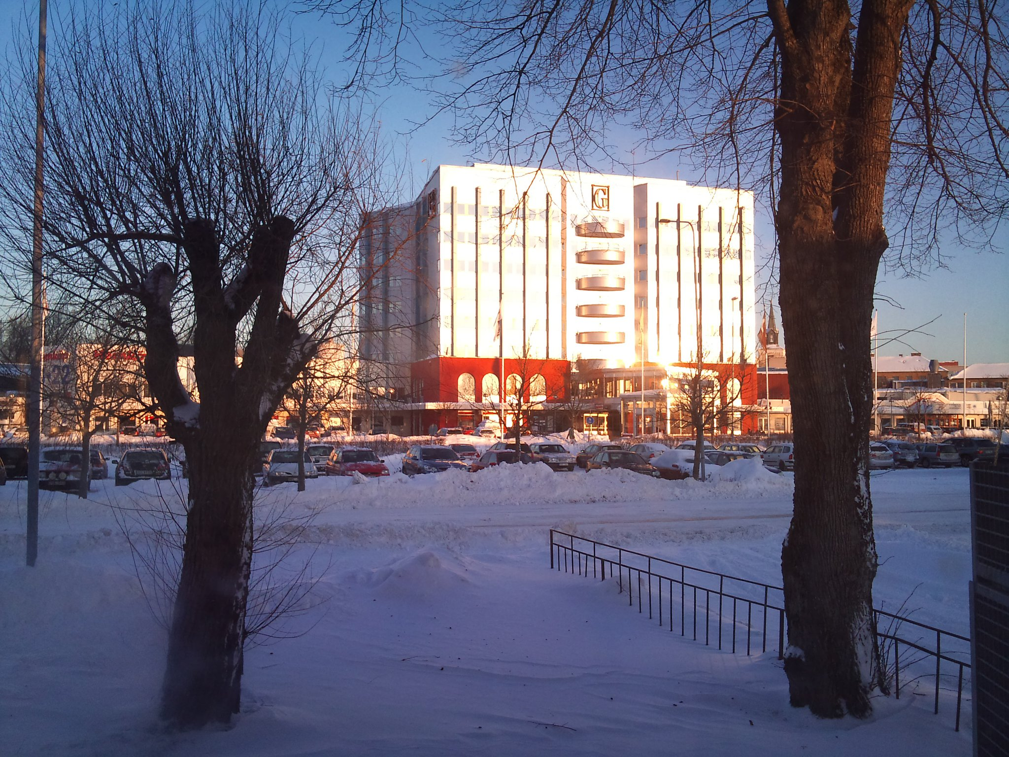 A picture of the building "Garvaren" in central Ljungby early in the morning.